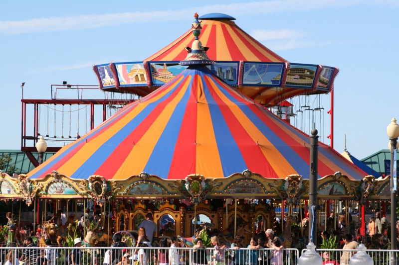 One of many amusement options at Navy Pier